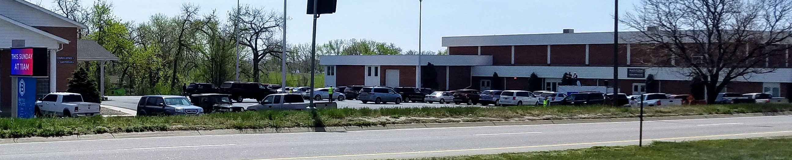 Drive-In Church on Mother's Day, Belmar Church